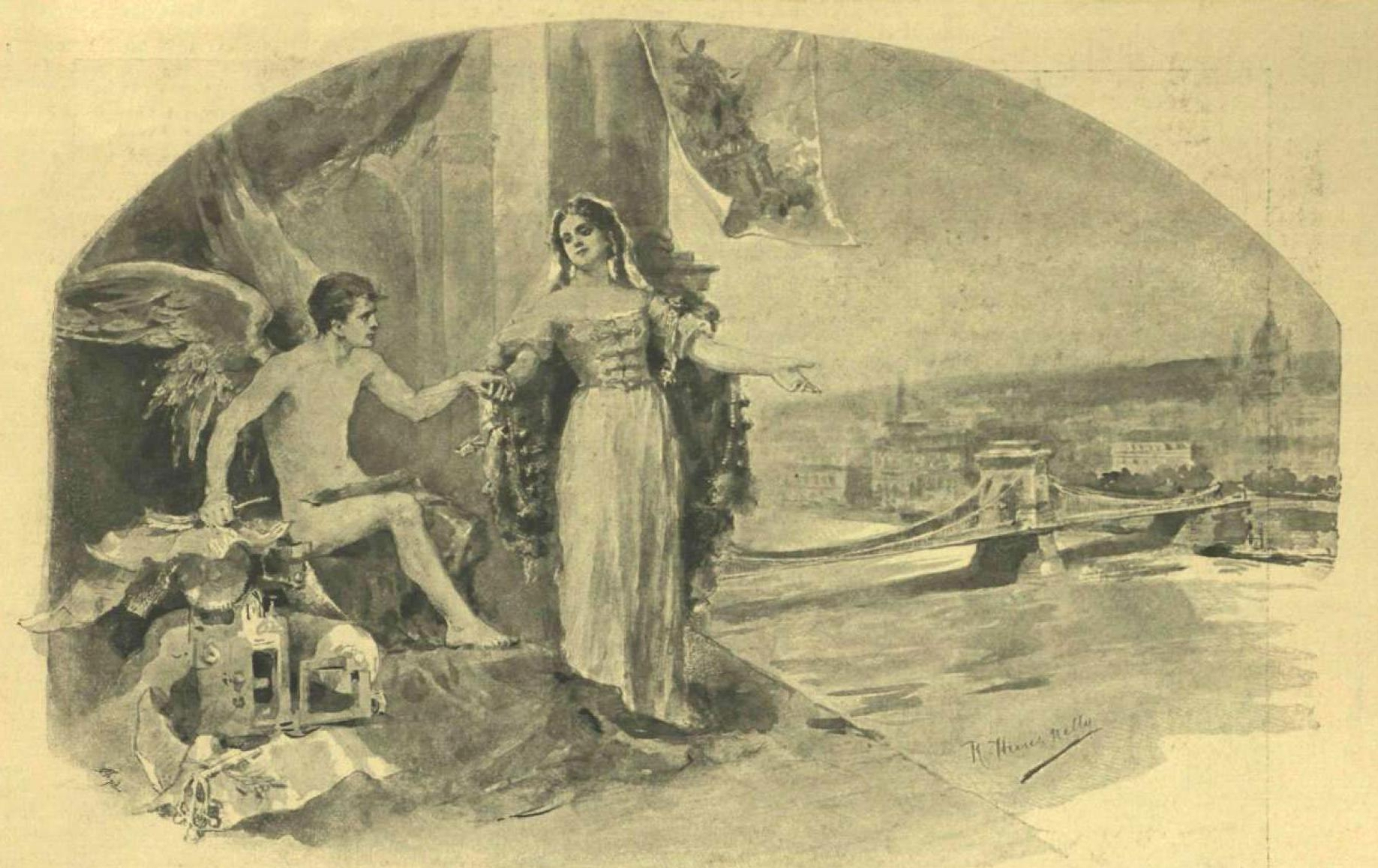 Invitation for the non-Hungarian newspapers to the Millennial exhimbition in Budapest